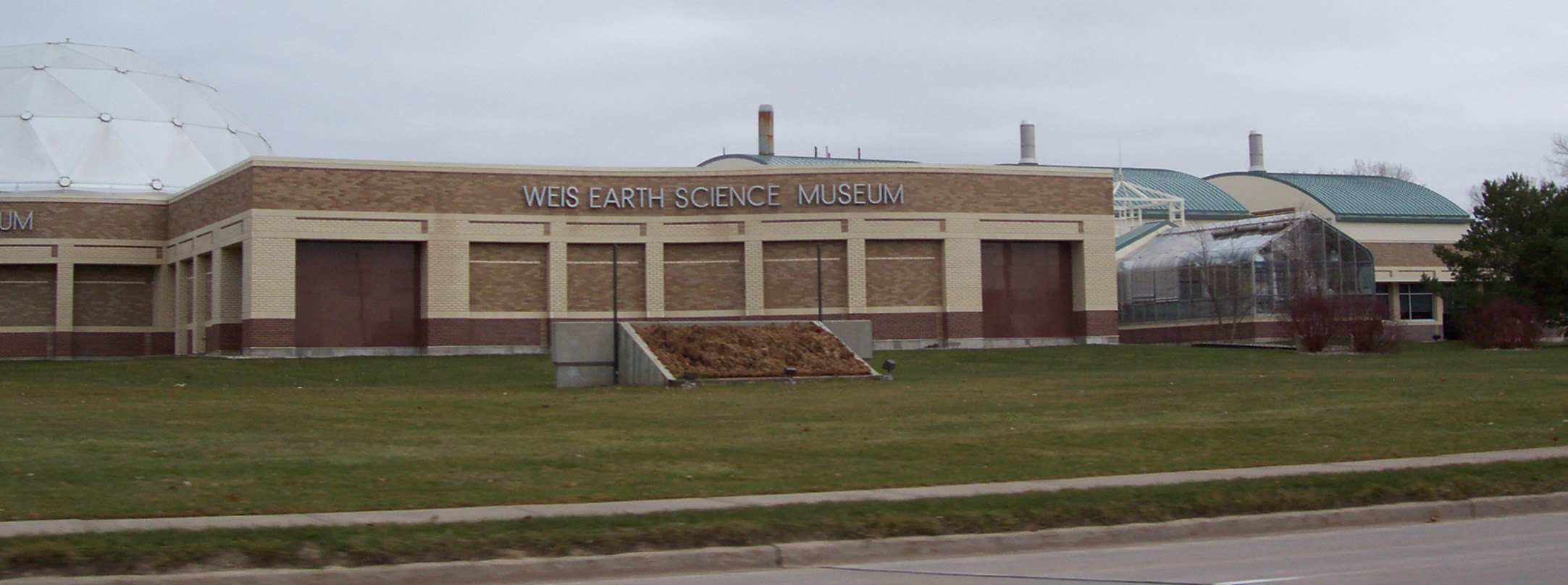 The Weis Earth Science Museum at the University of Wisconsin-Fox Valley in Menasha, Wisconsin, USA.